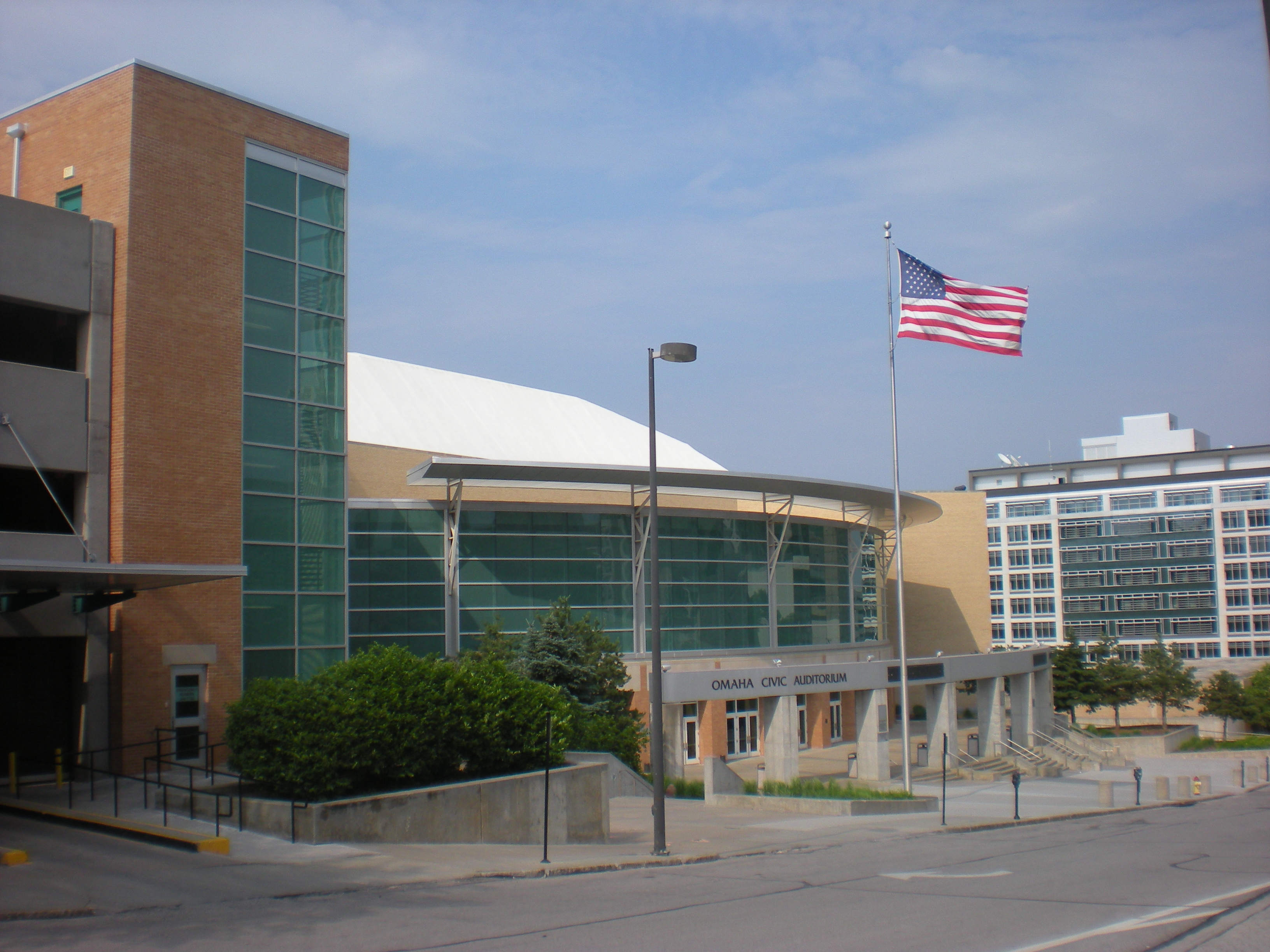 Omaha Civic Auditorium on Capital Ave.